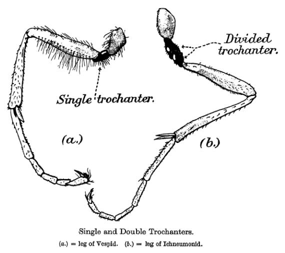 Trochanter of a vespid and an ichneumonid